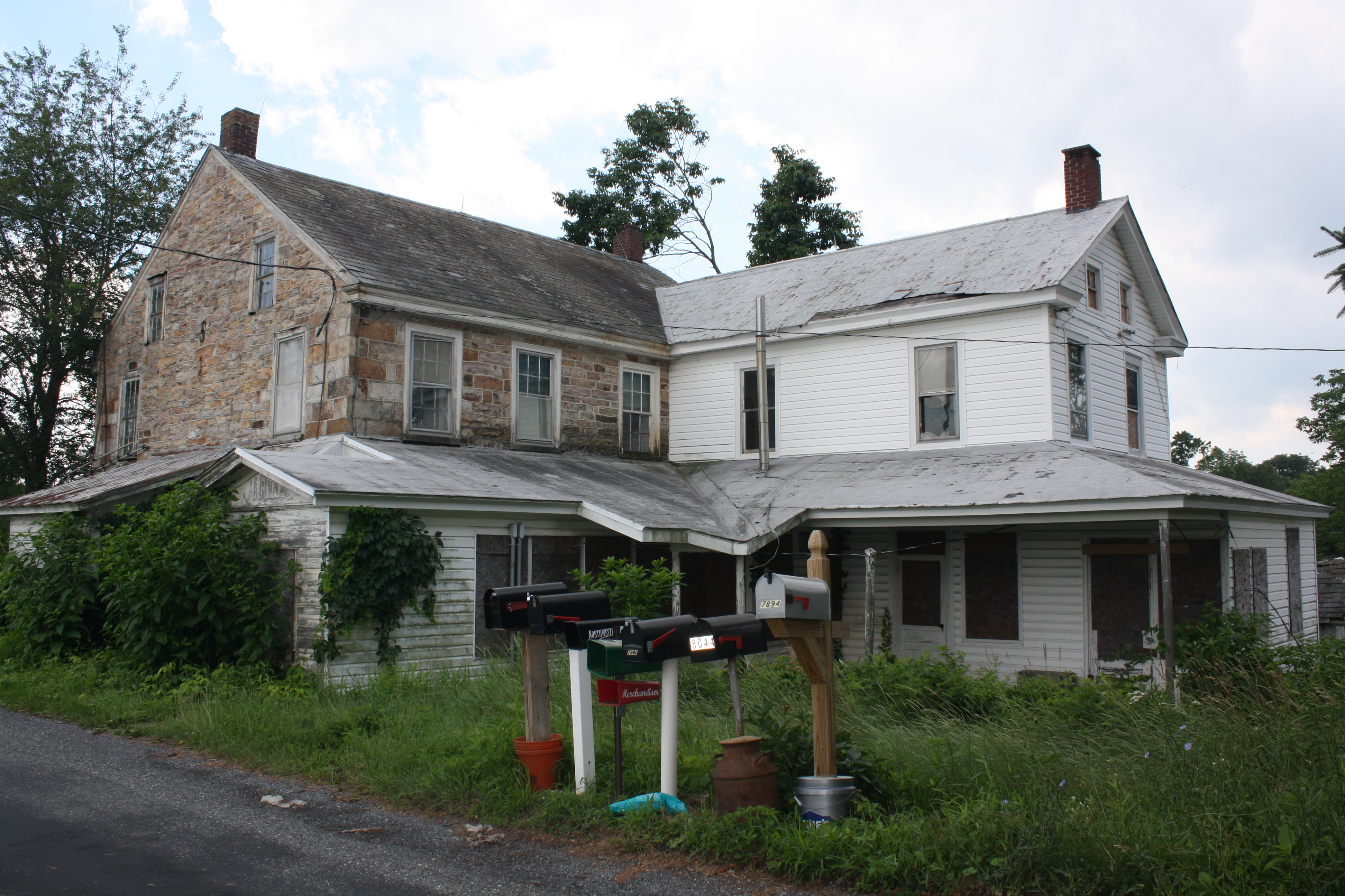 Frederick and Catherine Leaser Farm, also known as the Frederick Leaser Farm, is a historic home and farm located at Lynn Township, Lehigh County, Pennsylvania. Pennsylvania German vernacular farmhouse (1849).